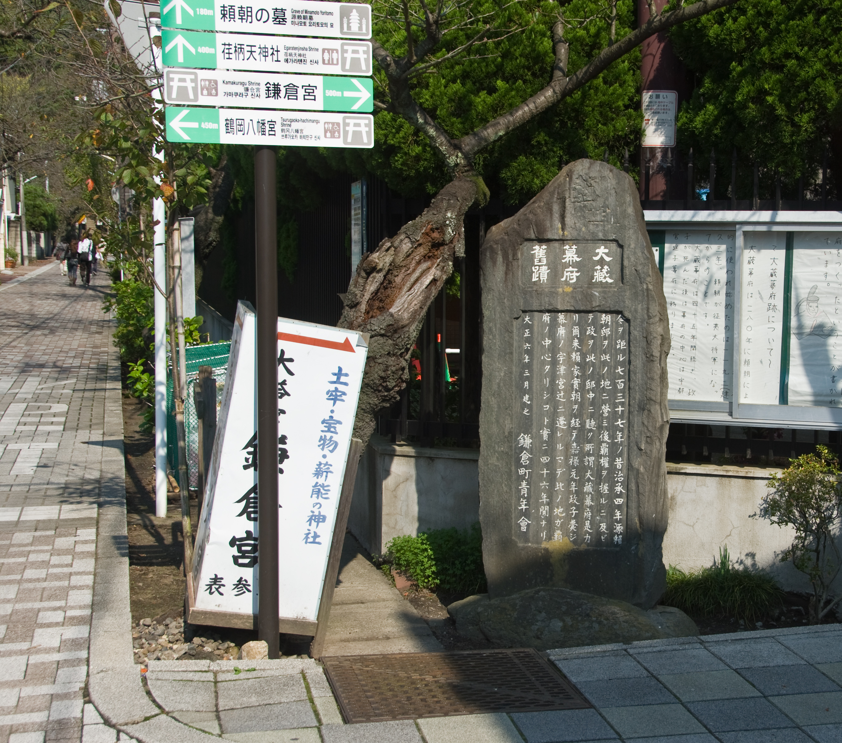 The stele erected by the citizens of Kamakura on the spot where Minamoto no Yoritomo first government, the so-called "Ōkura Bakufu", had its seat.